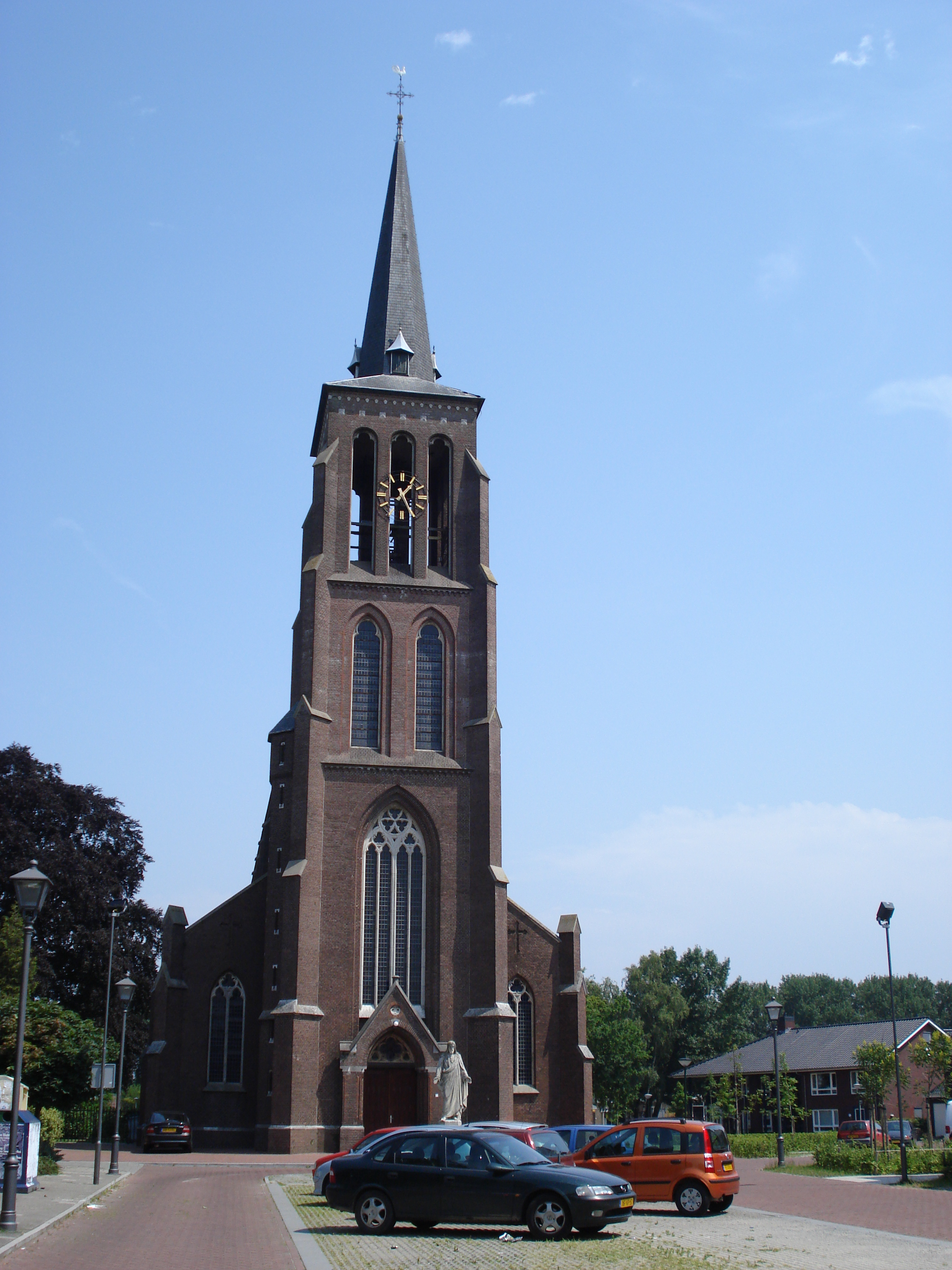 Eerde (N-Br, NL), church, front view